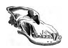 Skull of Mastiff